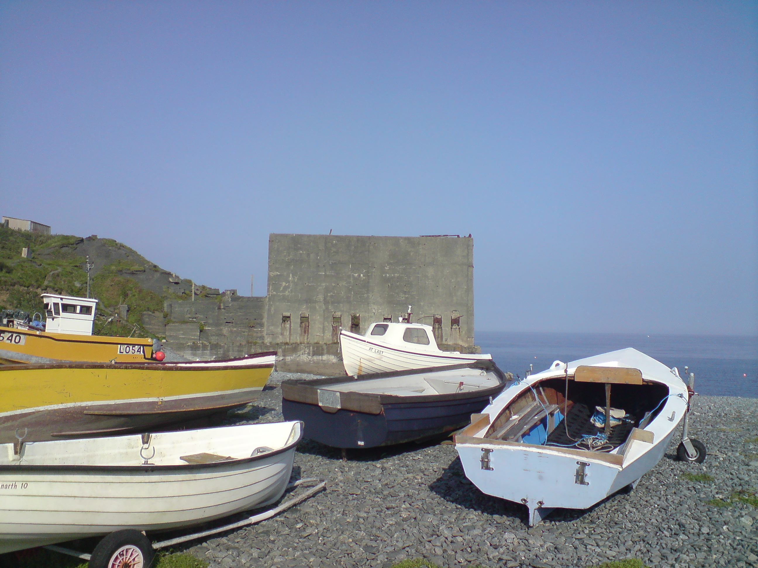 Porthoustock beach, Cornwall, showing the concrete roadstone silo